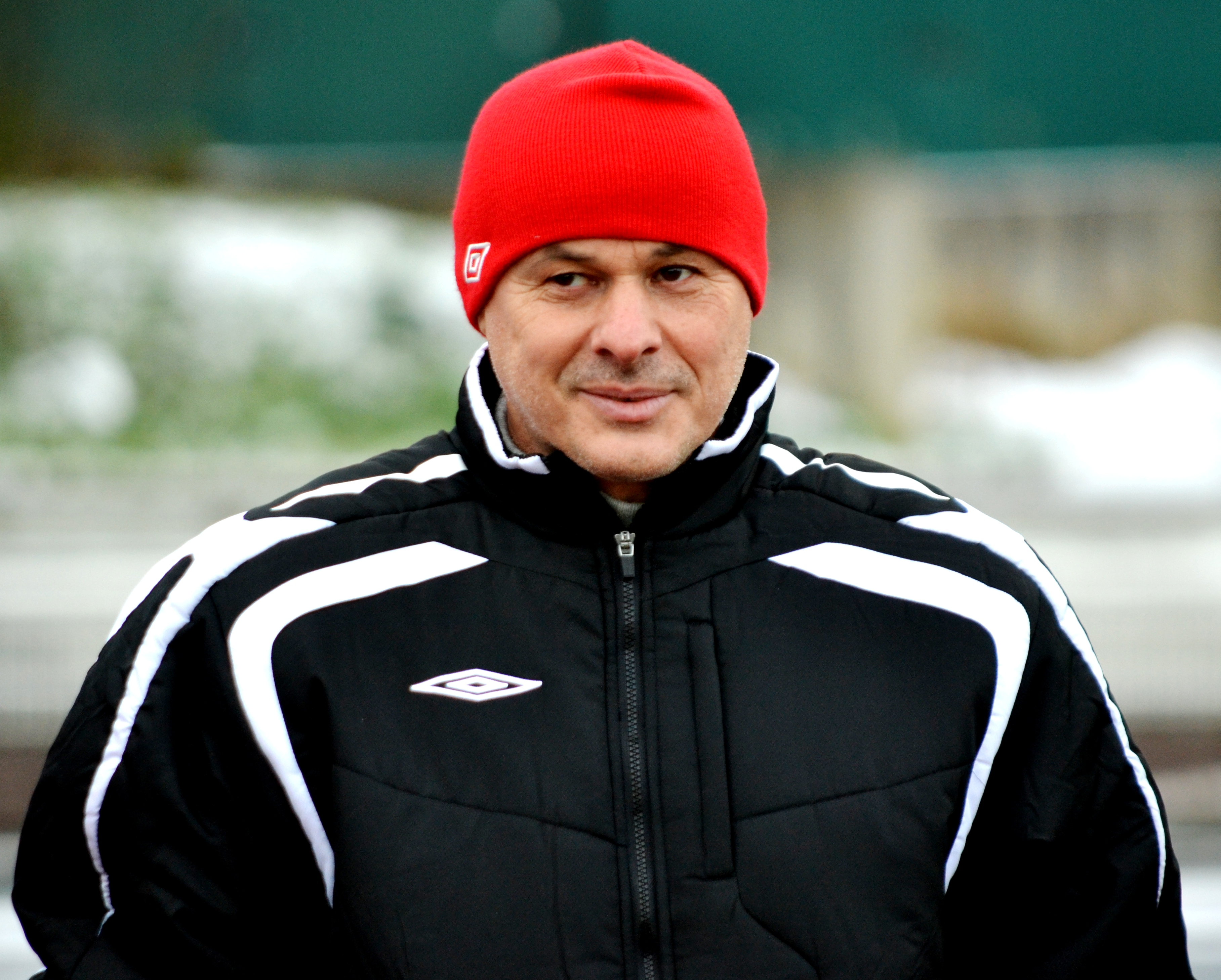 Juraj Šimurka, Slovak footballer - goalkeeper